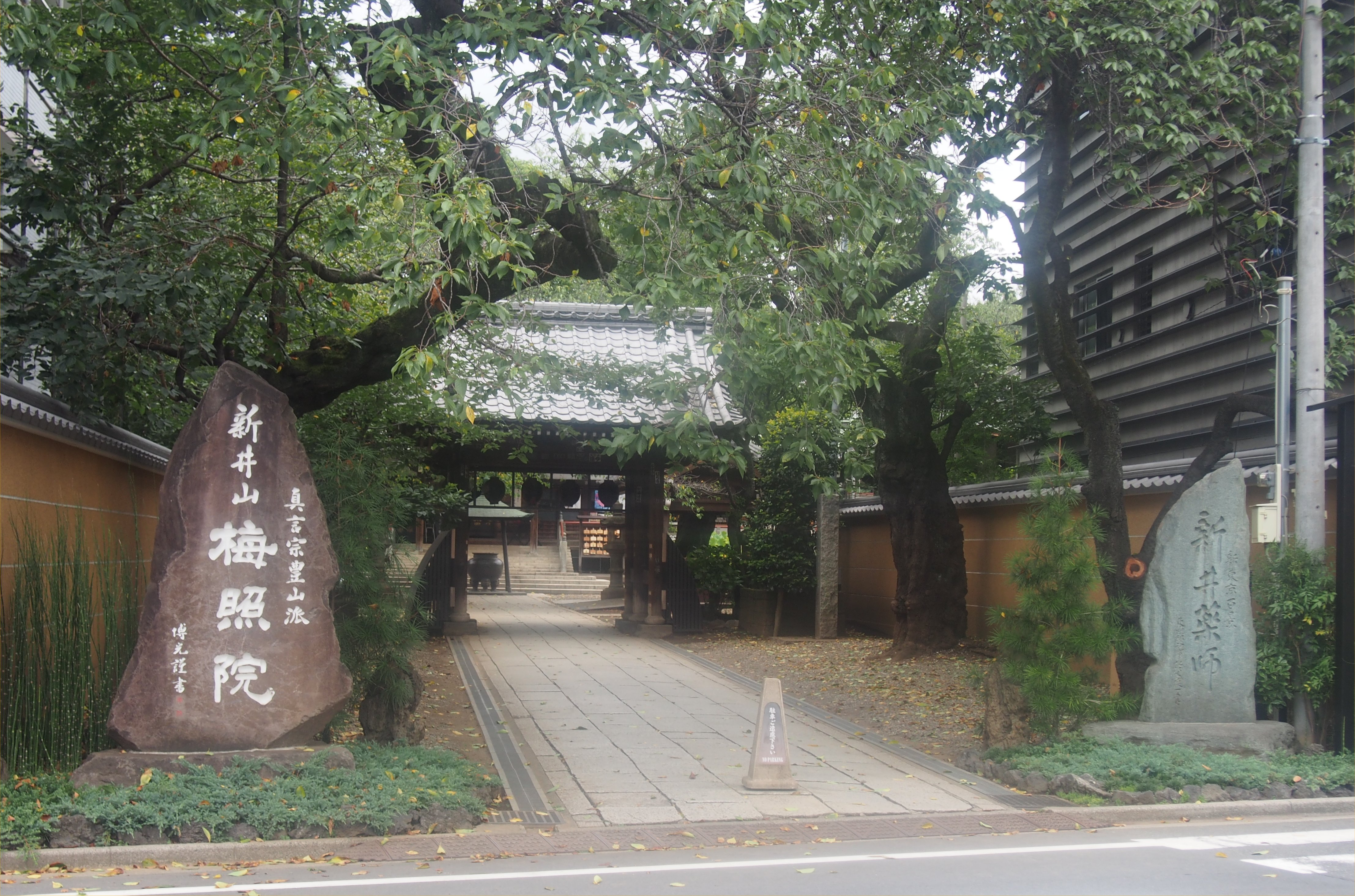 A photo of the entrance of Baishoin Temple(araiyakushi),Arai,Nakano-ku,Tokyo,Japan.